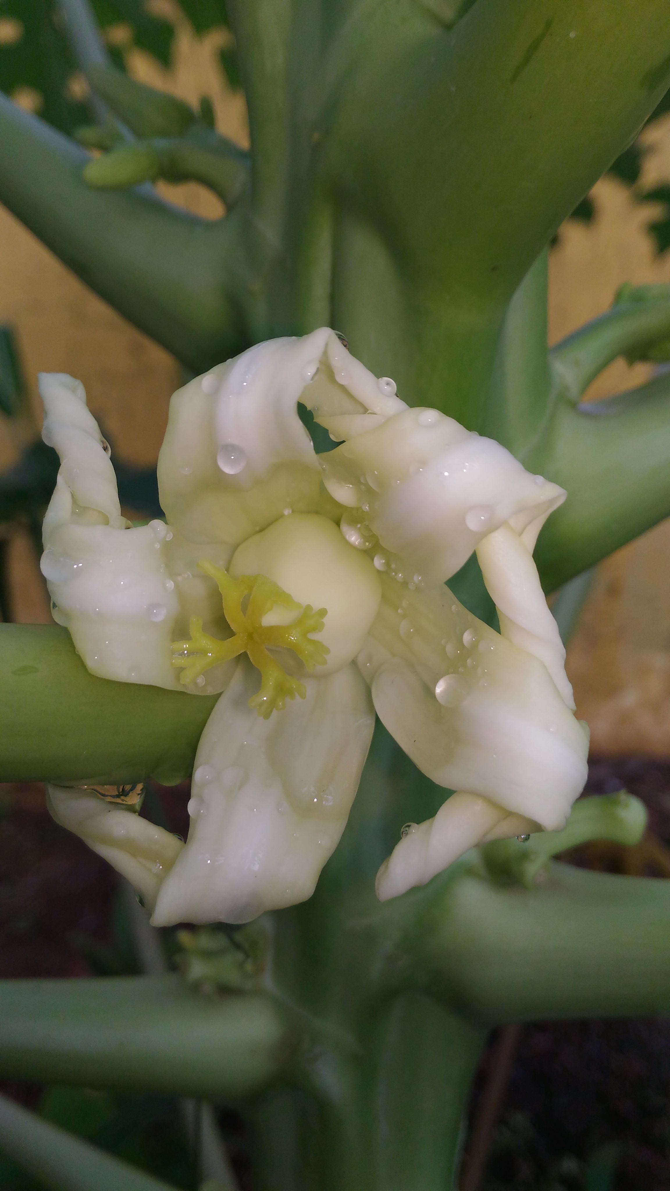 Papaya flower